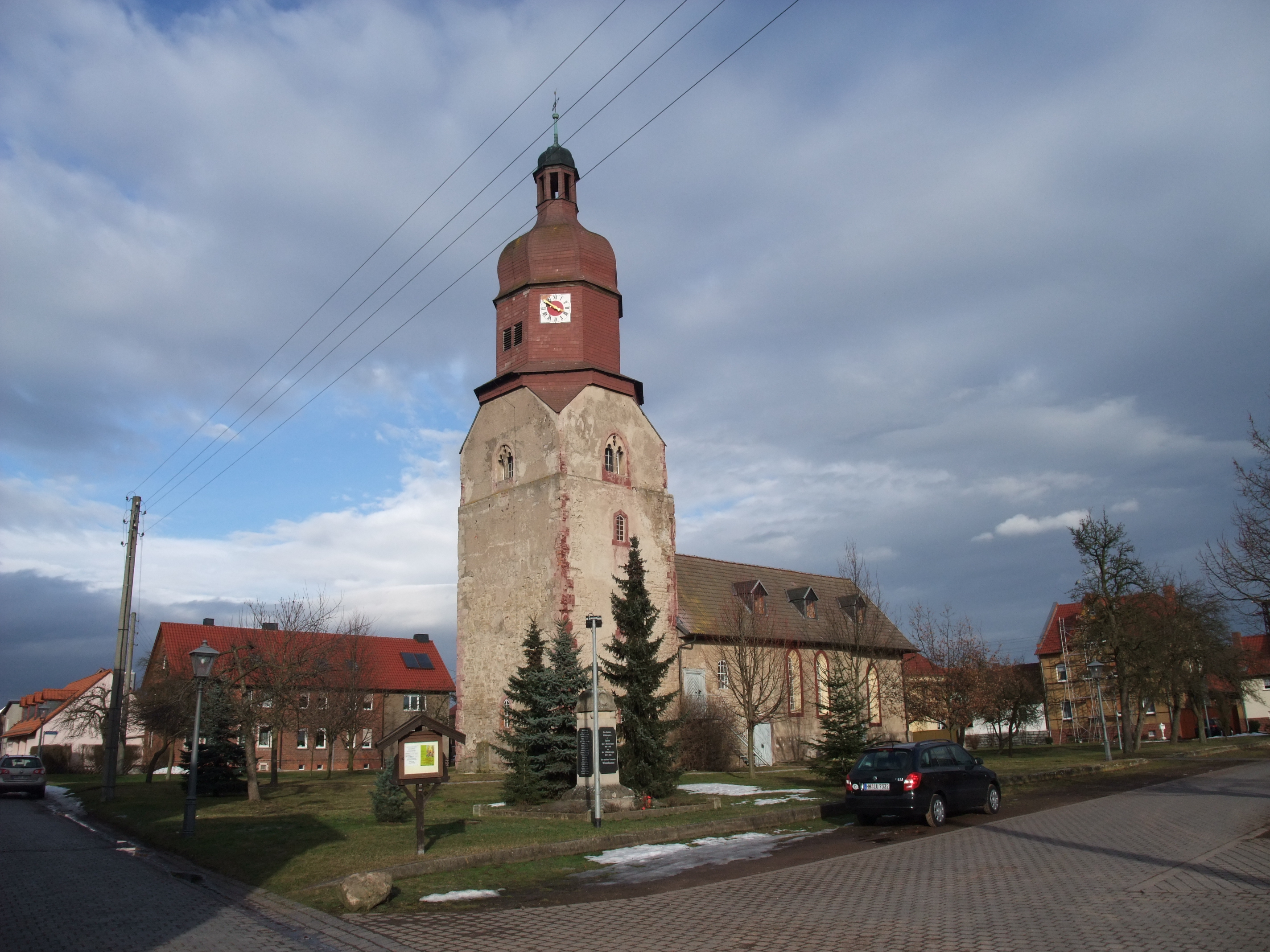 Windehausen, Thuringia, Germany. St. Gilles church from southwest.